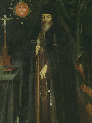 Yelisey Pletenecki (1550-1624), the Kyiv-Pecherska Lavra’s archimandrite (abbot). The suggestetd lifetime portrait (beginning of the 17th c.)